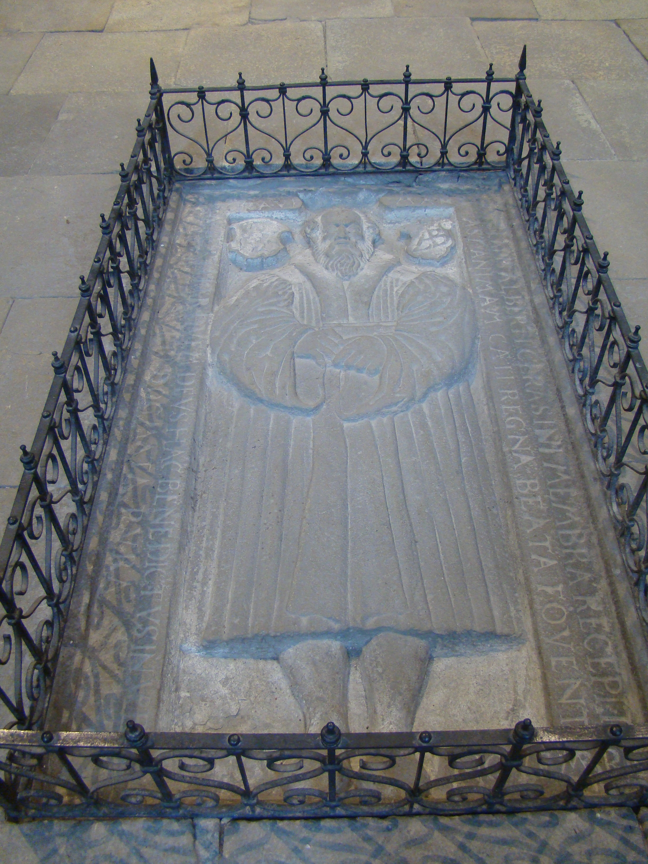 Lutheran church in Bistrița